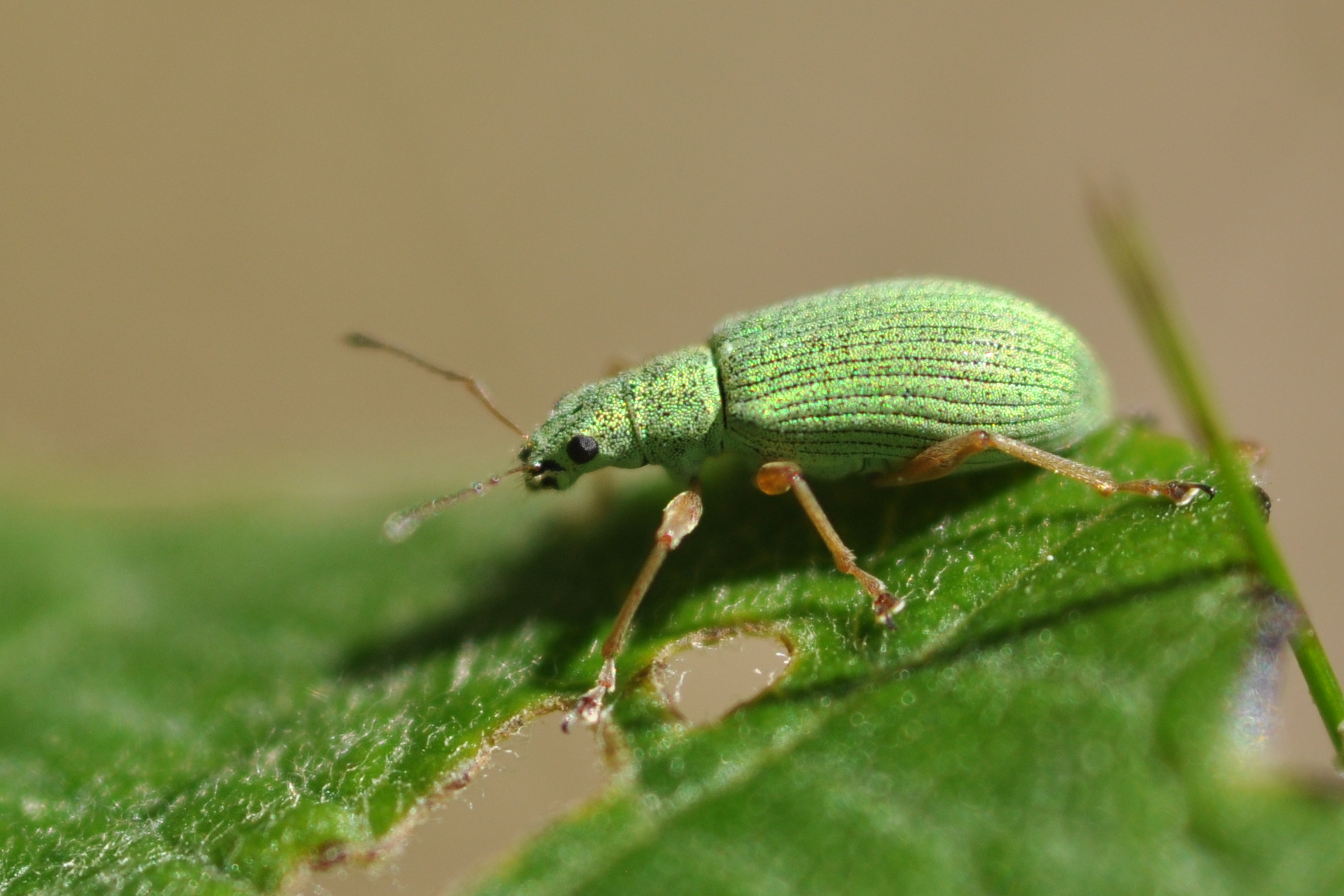 Pale Green Weevil Polydrusus impressifrons on Grey Alder Alnus incana in Bahrenfeld, Hamburg.